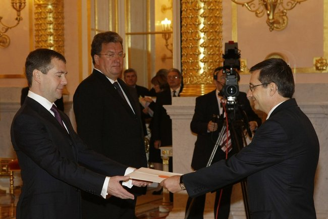 THE KREMLIN, MOSCOW. Presentation by foreign ambassadors of their letters of credence. Dmitry Medvedev receives a letter of credence from Albanian Ambassador Sokol Gjoka.